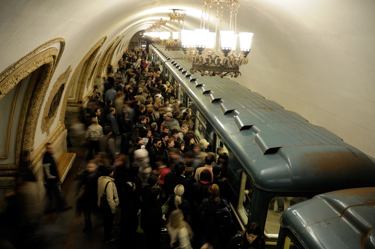 The metro in Moscow is one of the busiest in the world.